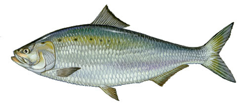 The American Shad, Alosa Sapidissima